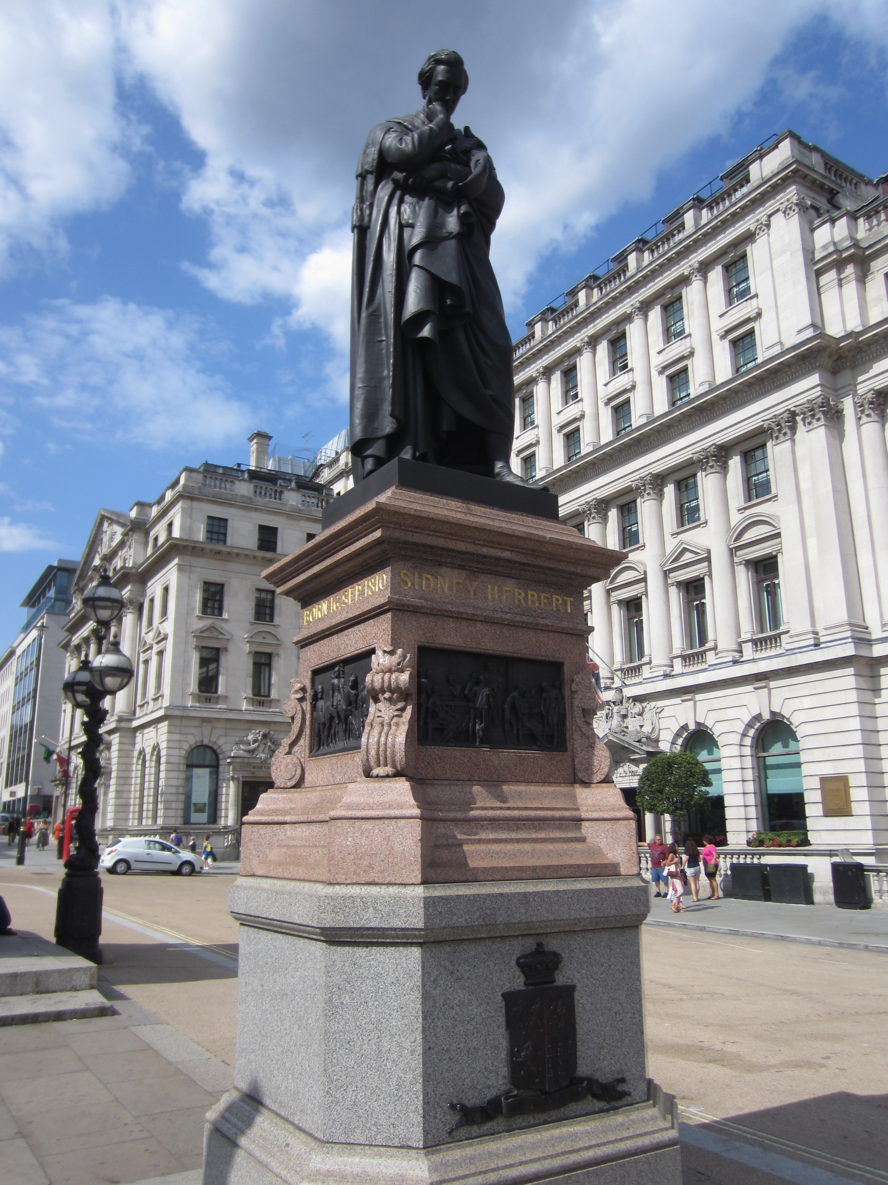 London, United Kingdom (August 2014)